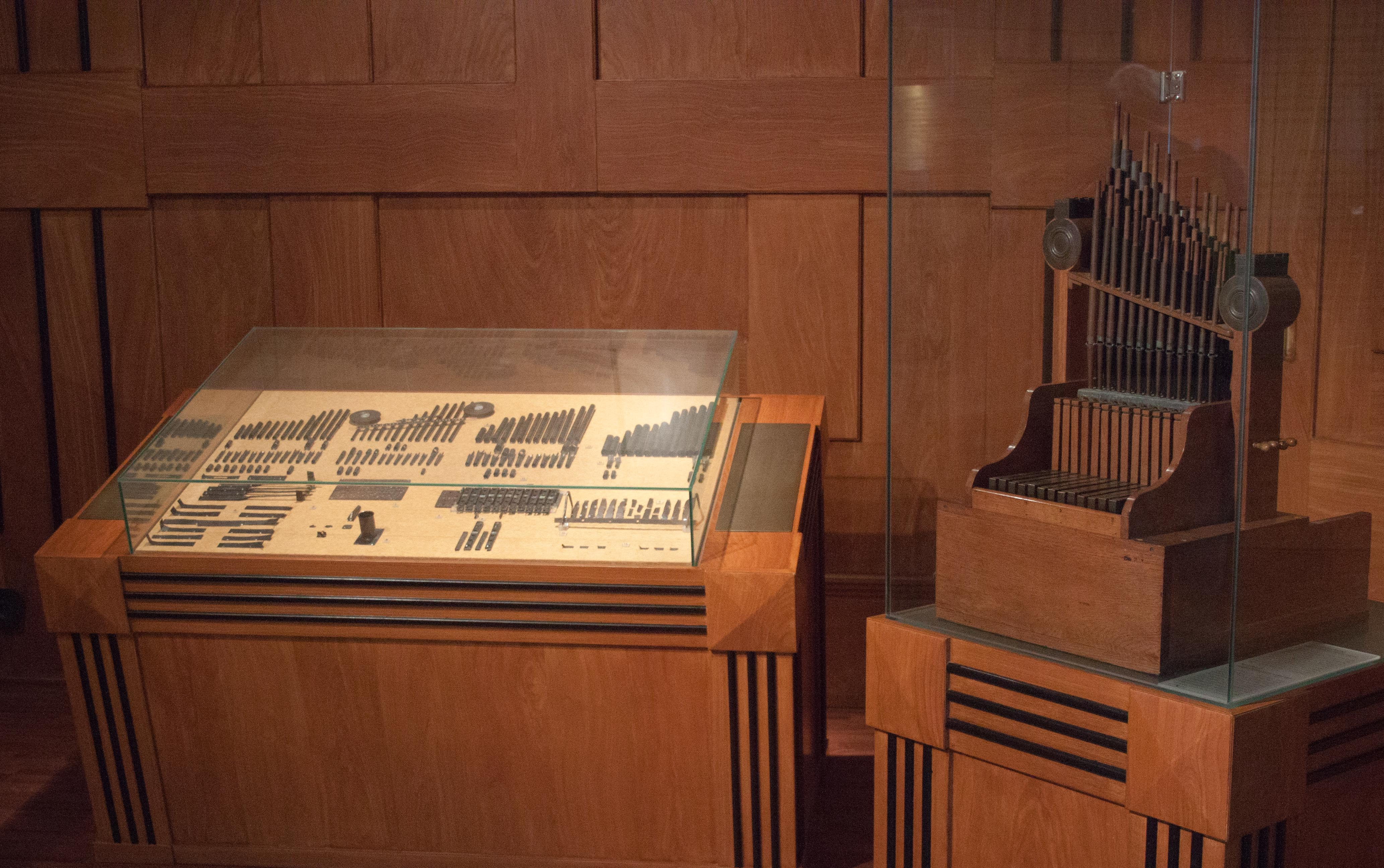 Parts of the Aquincum Organ and its reconstruction